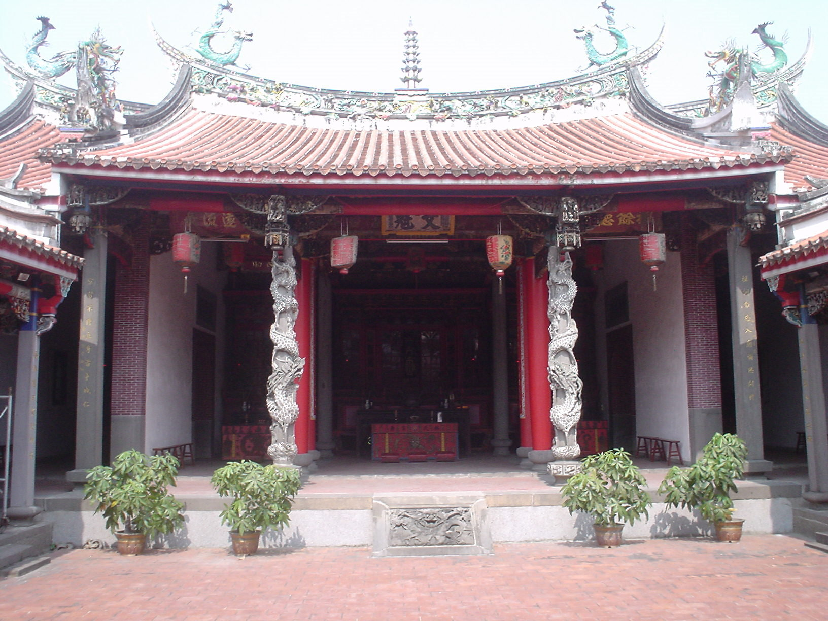 This is the entrance to the main shrine at the Lin Family Shrine in Taichung City, Taiwan. Photo taken on October 12, 2006.